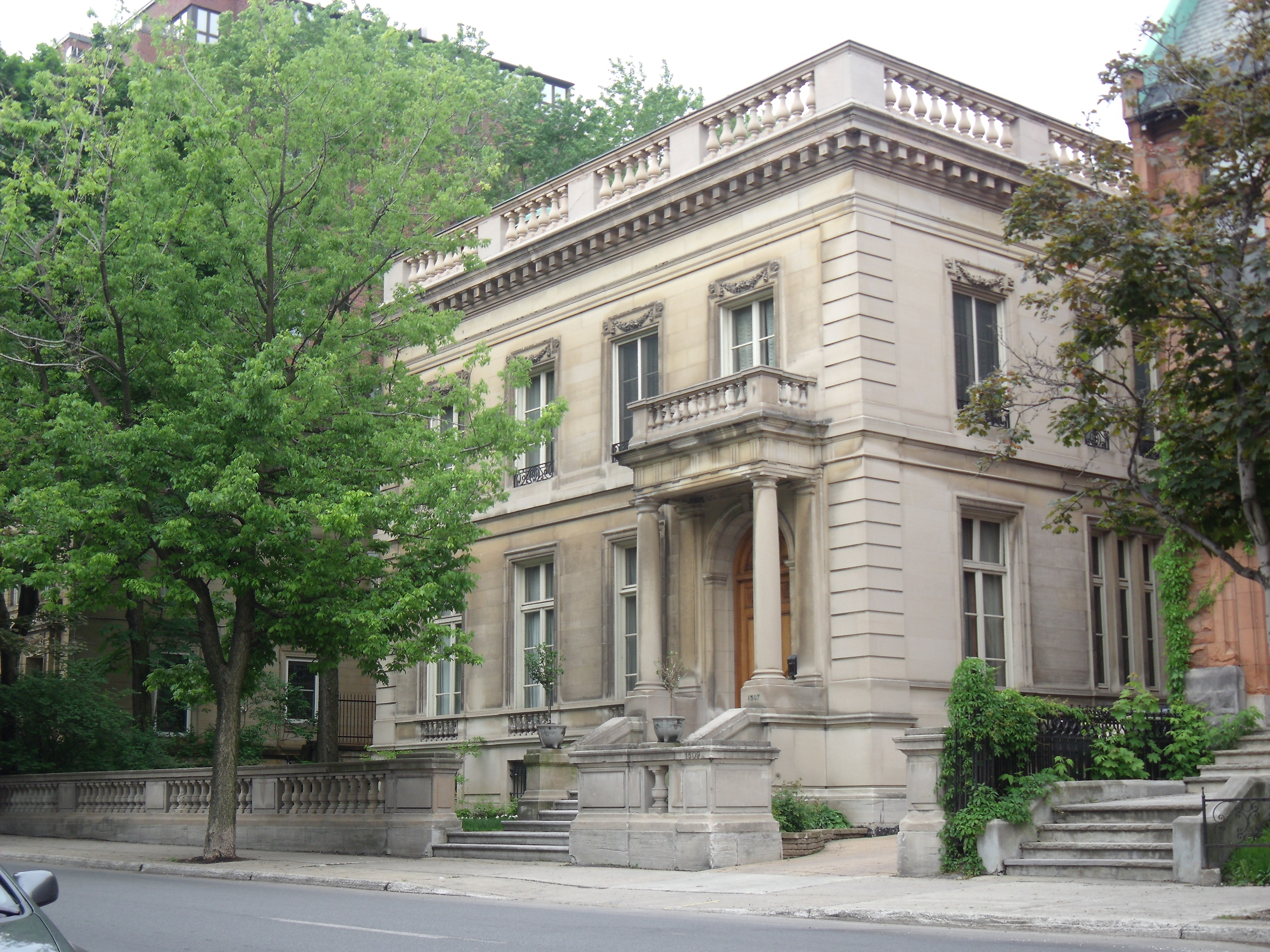 Joseph-Alderic Raymond House (1929-1930), 1507 Docteur-Penfield avenue, Montreal, Canada.